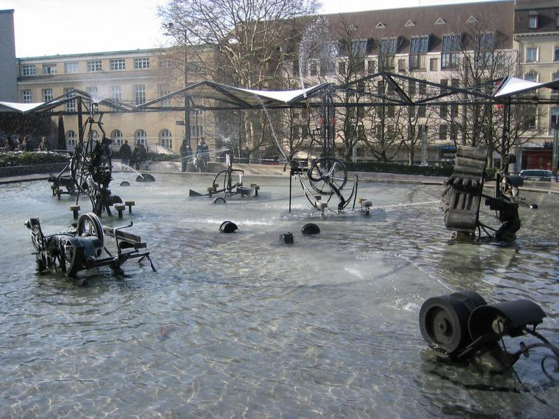 Basel, Switzerland